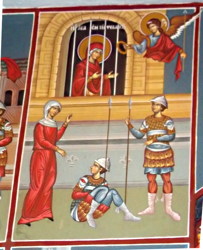 Paraskevi of Rome appears an angel in prison